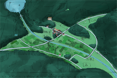 Landscape made on Photoshop using brushe texture.